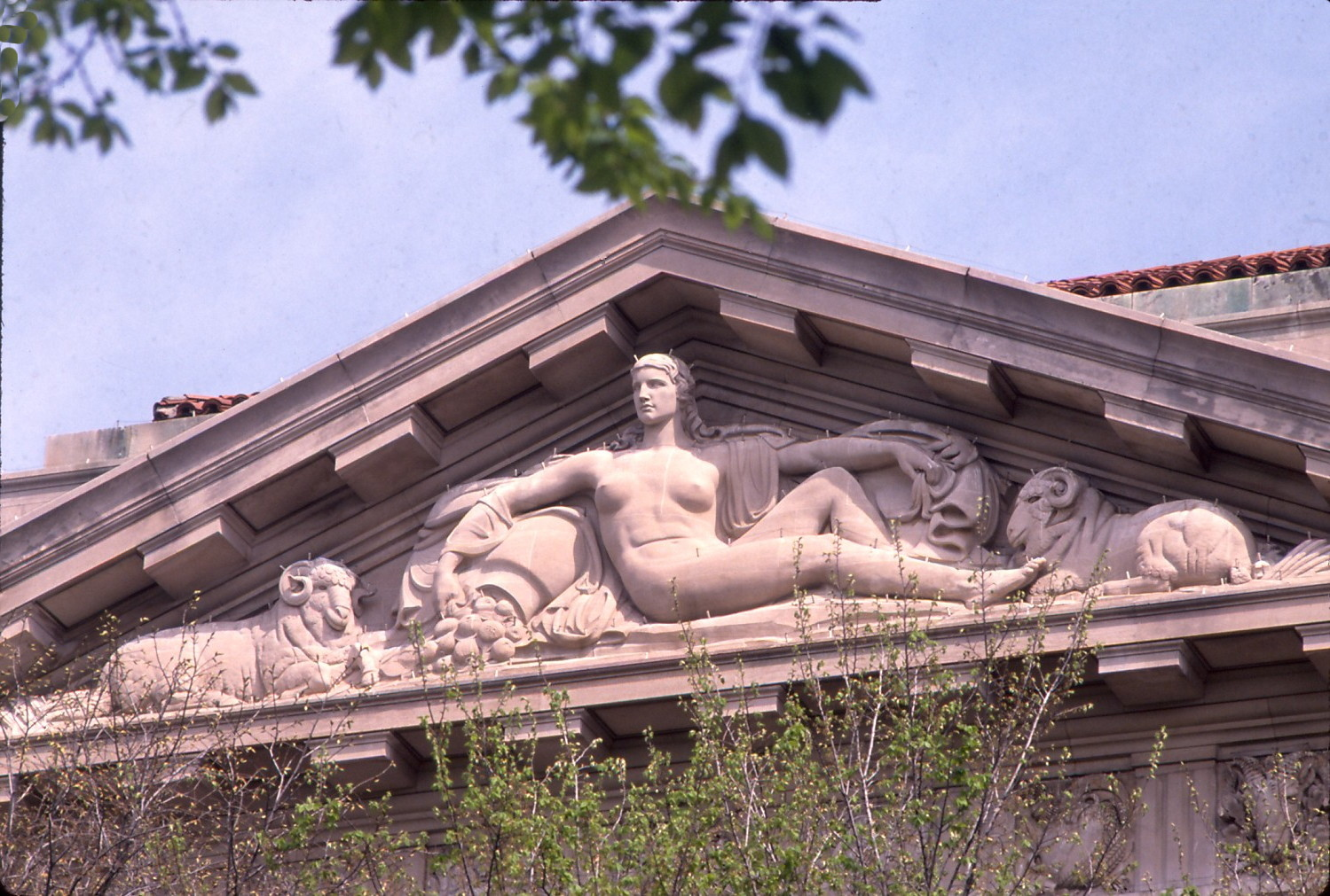 Sherry Fry pediment Wash. DC